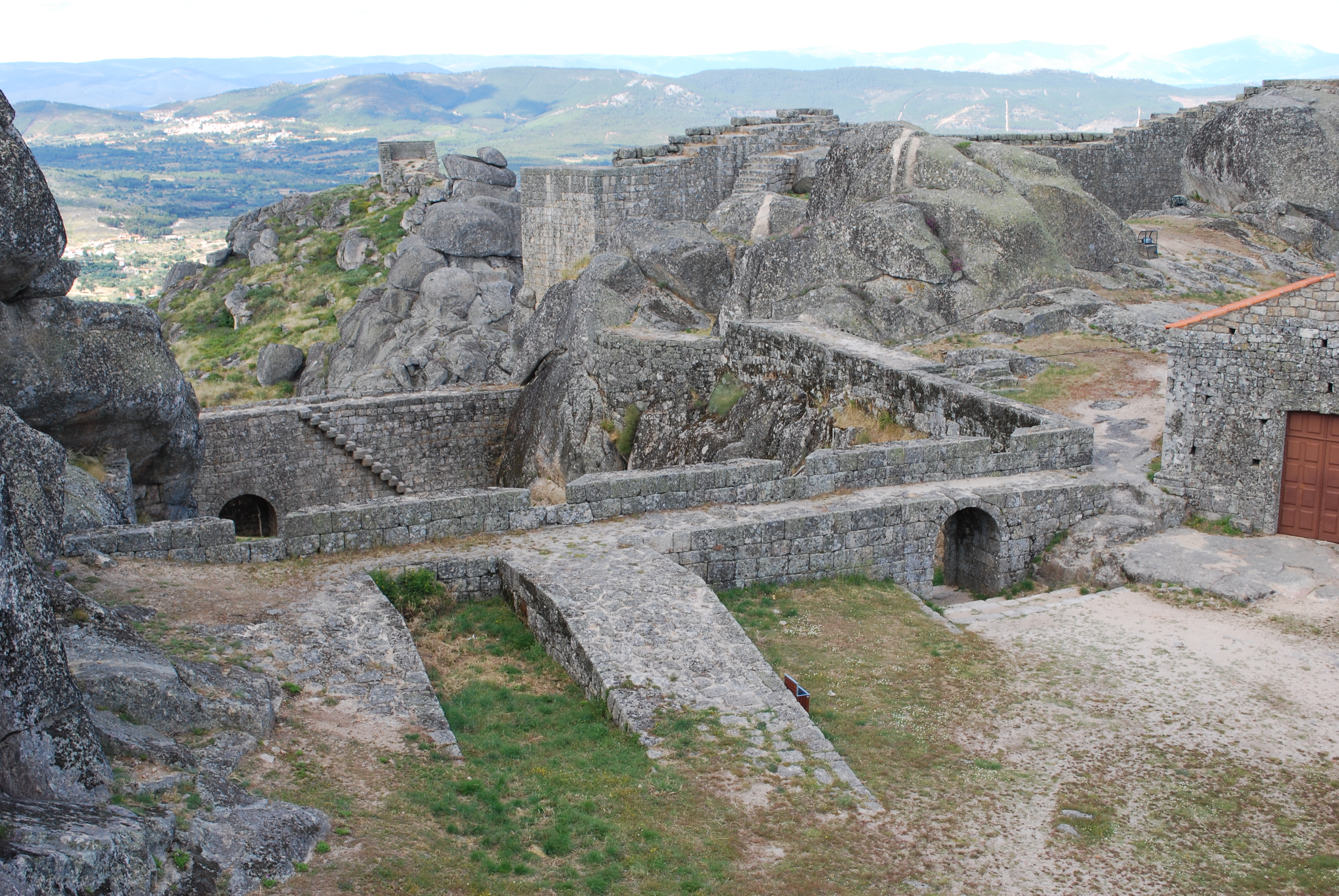 This monument is classified as Monumento Nacional. This file was uploaded for Wiki Loves Monuments in Portugal with the unique identifier 69865.